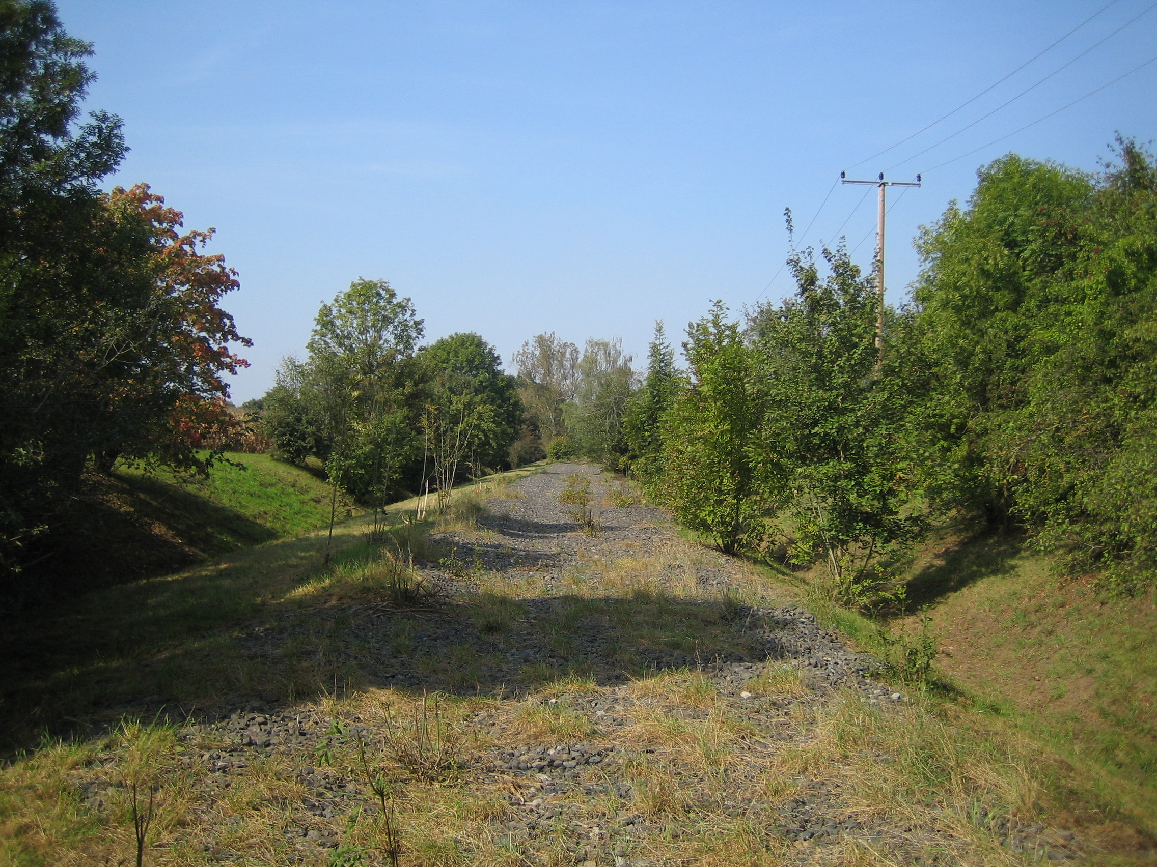 Abandoned Railroadtrack of the former route called "Abzw Nordost-Feldkirchen"